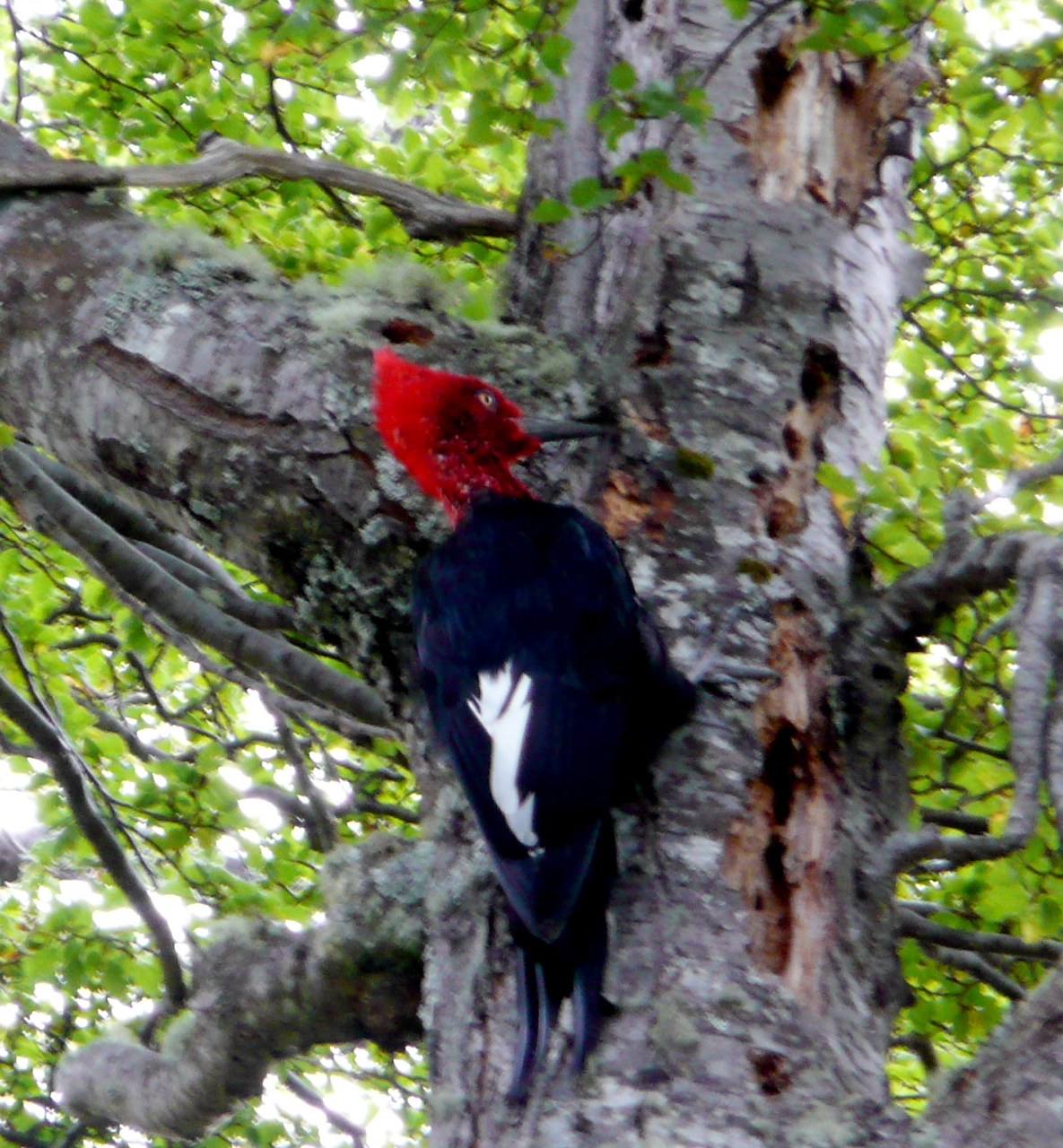 Magellanic Woodpecker